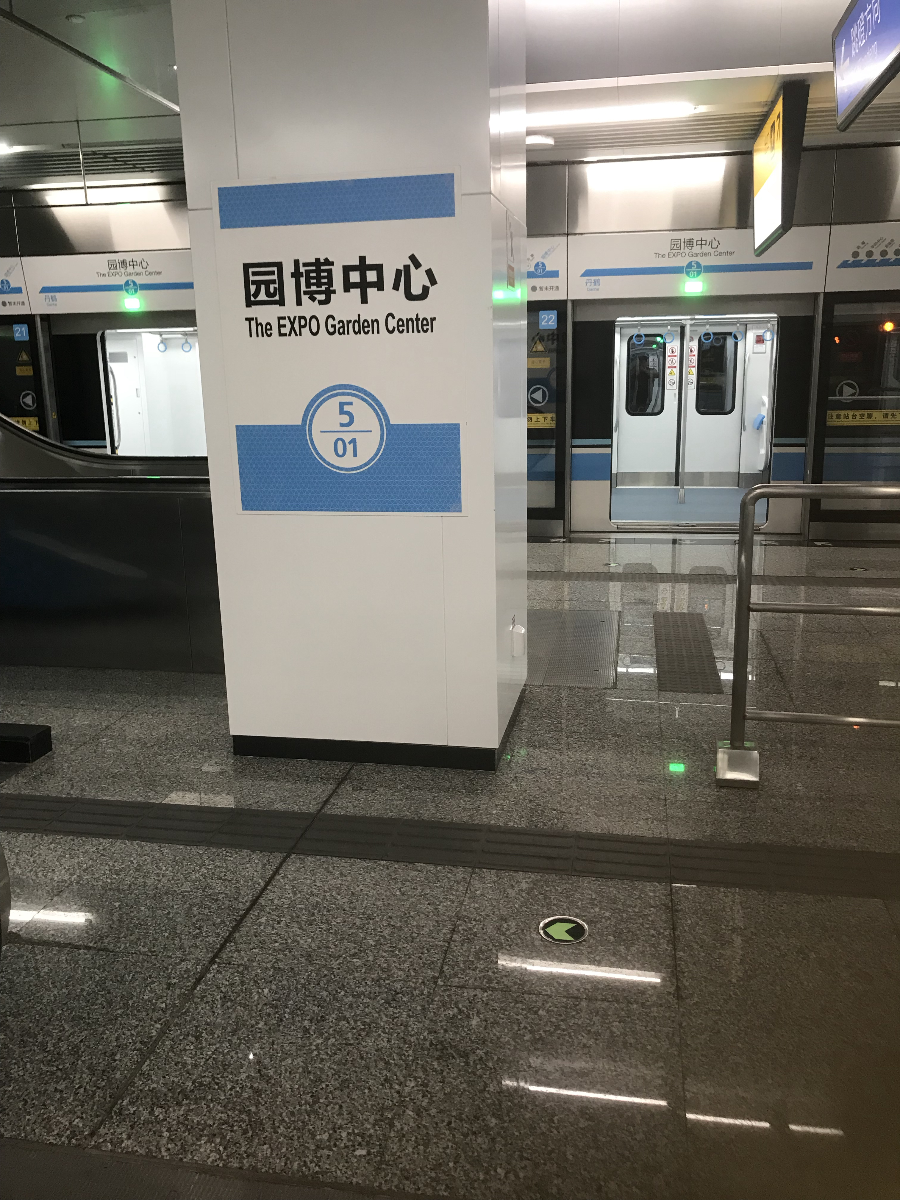 inside of Chongqing Rail Transit, Line 5, The EXPO Center station